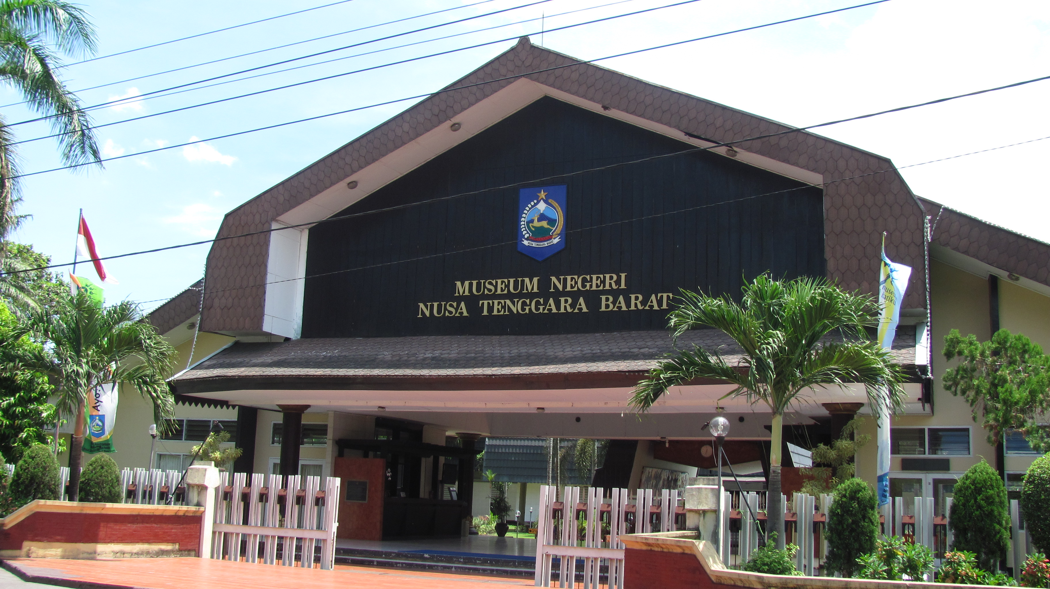 Museum, City of Mataram, Indonesia